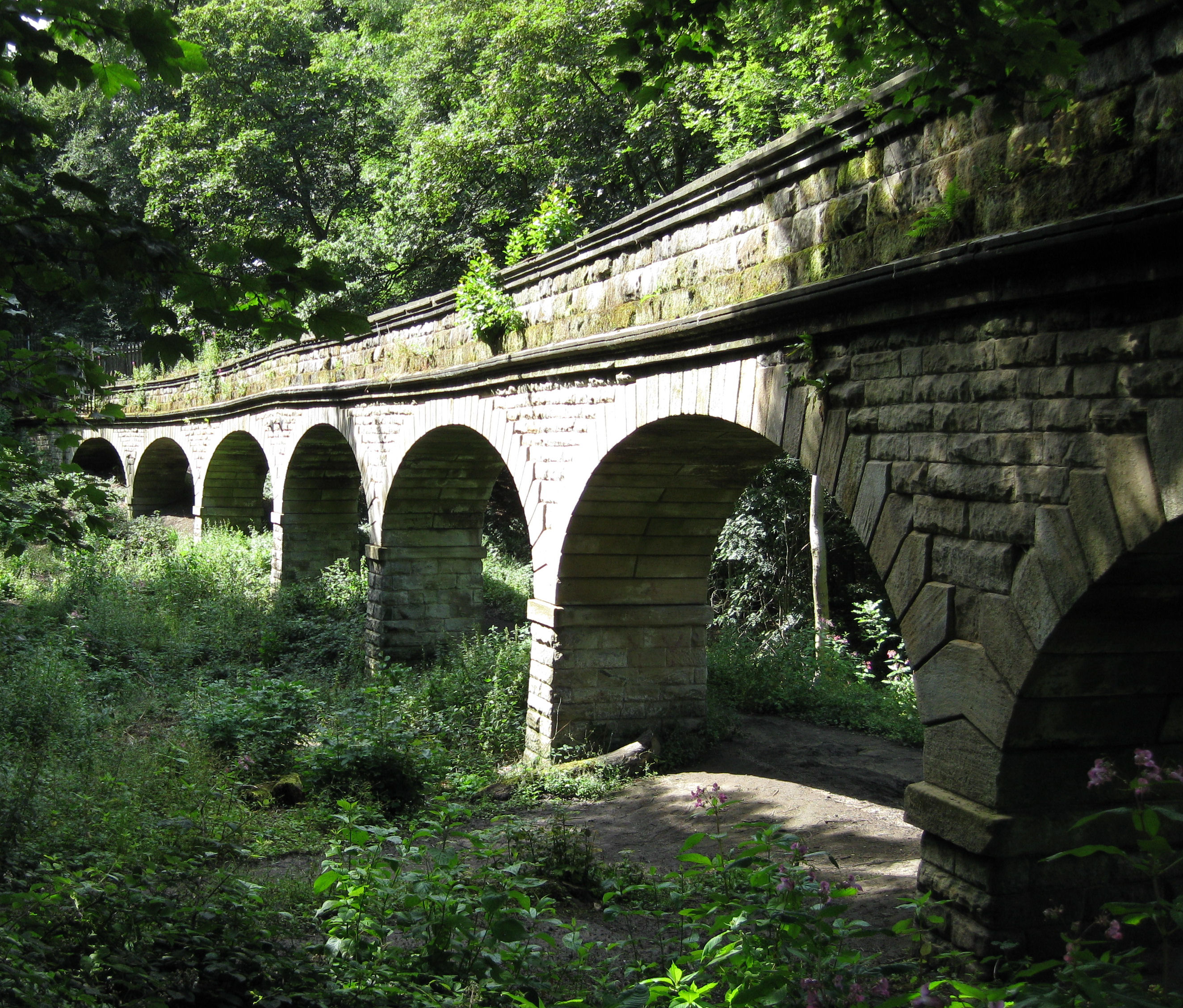 Seven Arches aqueduct (disused), Scotland Wood, Leeds, on the Meanwood Valley Trail (goes under the second arch from the right), near Adel Beck.